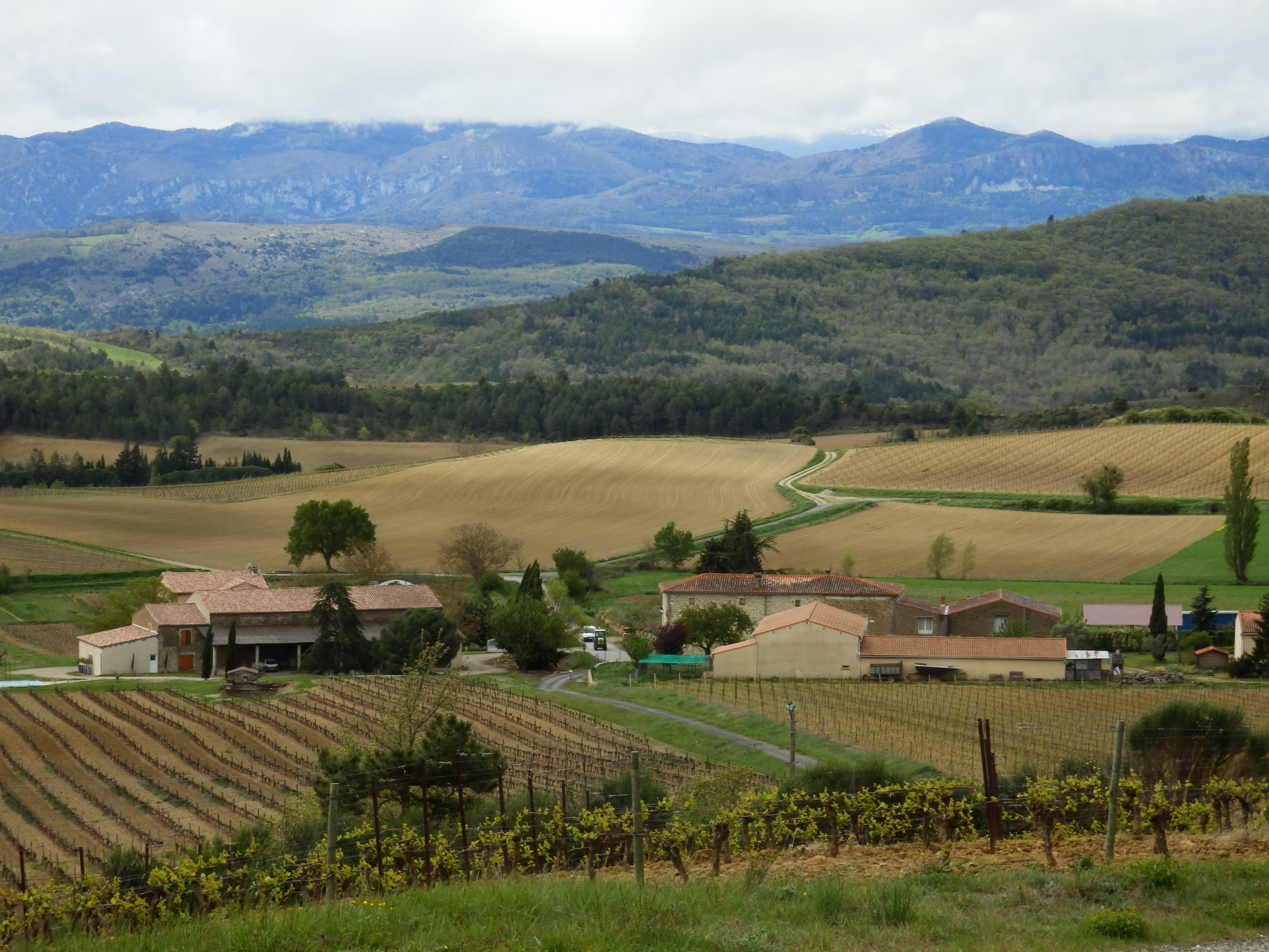 View of Conilhac-de-la-Montagne, Aude, France